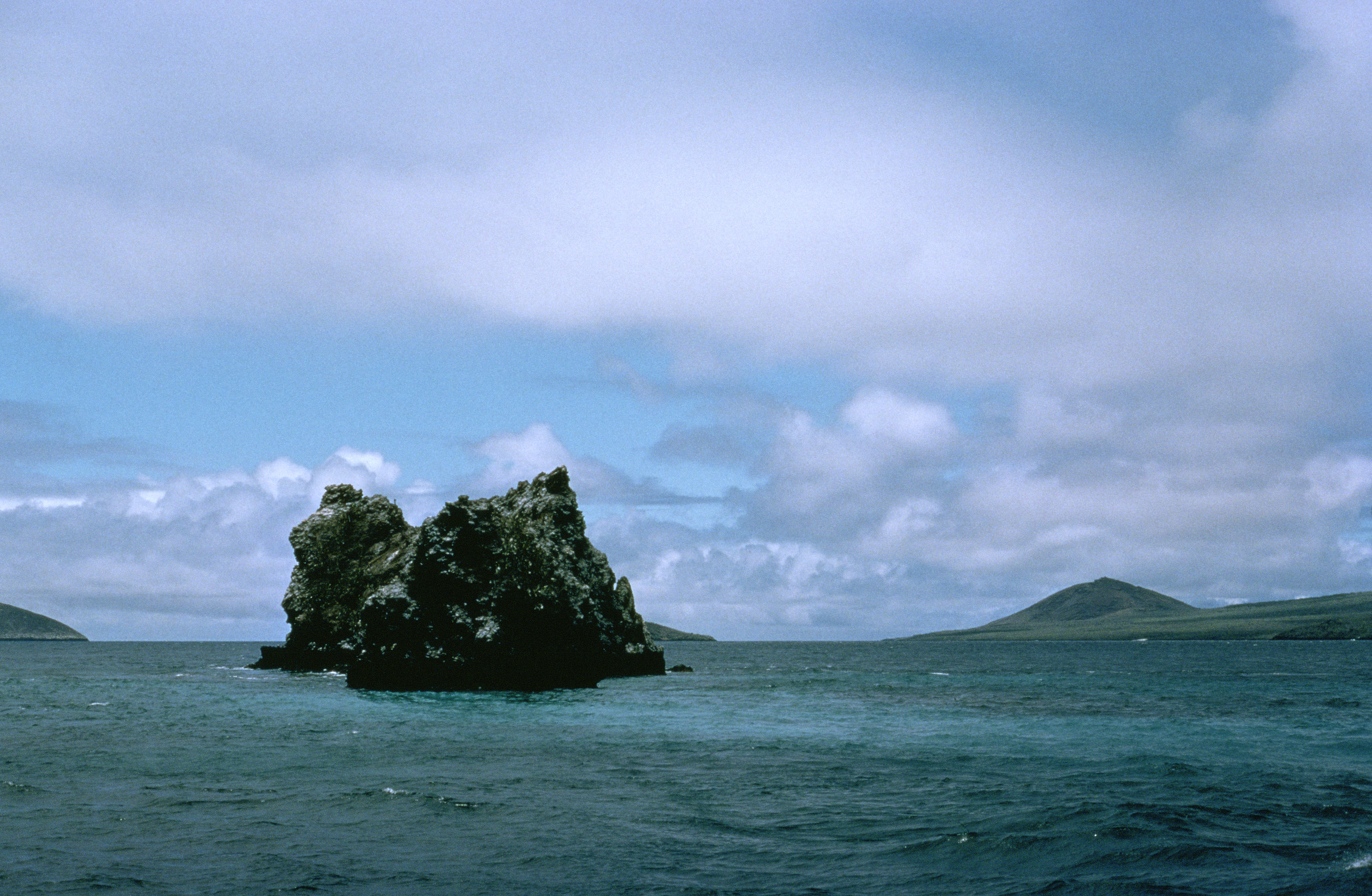 Crown of Thorns Reef, Galapagos Islands, sticking out of the water. From the FWS